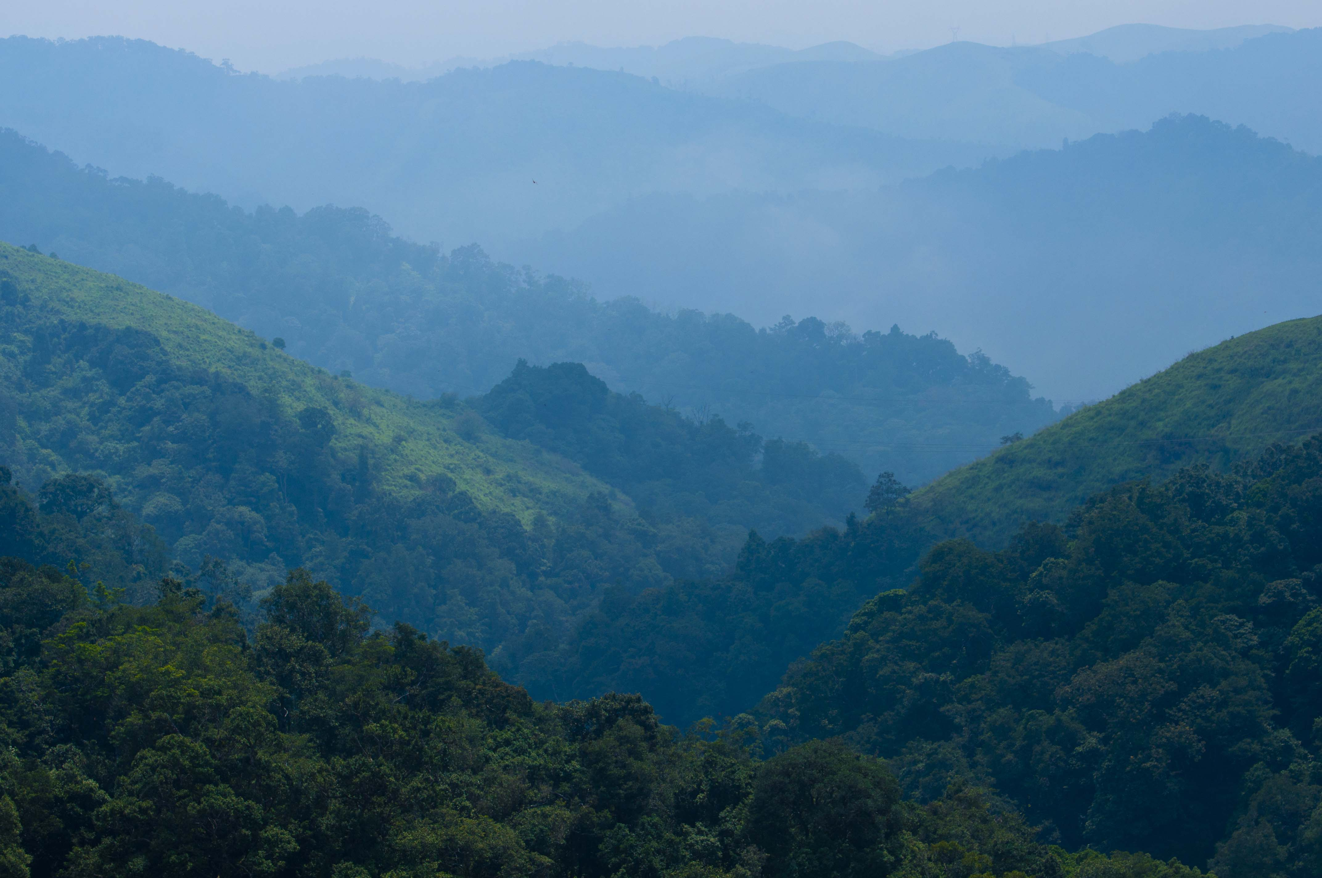 a panoramic view of mountains of western ghats